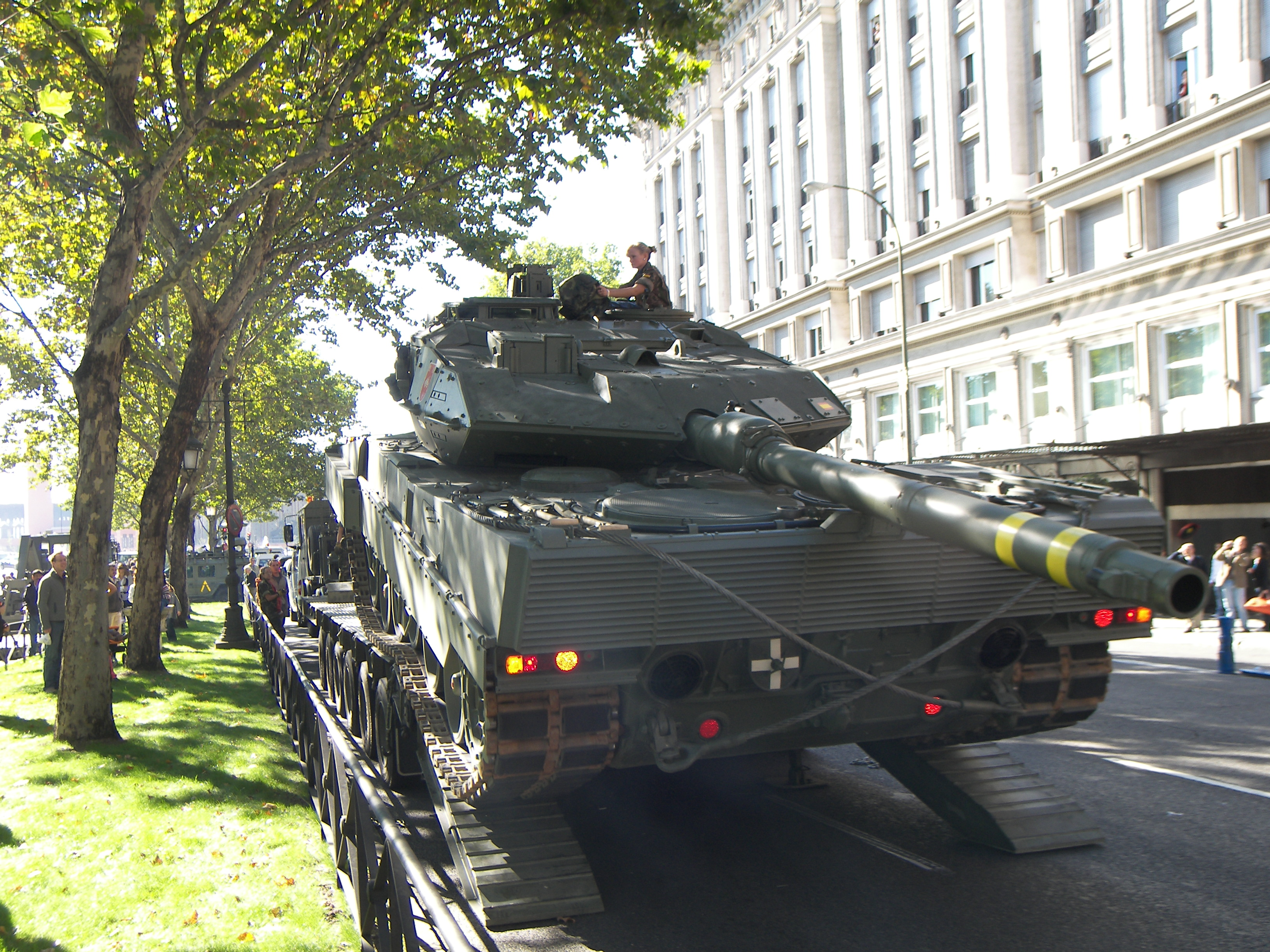 Leopard 2E in Madrid, en:13 October en:2007